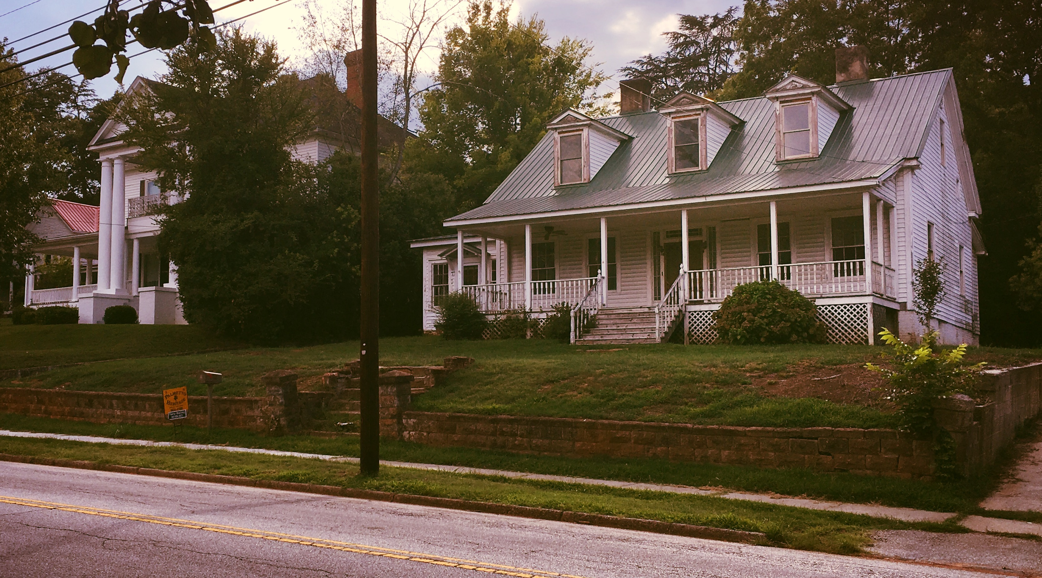 The Hix-Blackwell House, Laurens, South Carolina; part of the South Harper Historic District